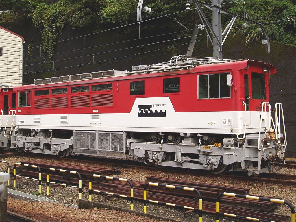 Oigawa Railway type ED903. at ABT-Ichishiro Sta. 2007.10.09 Photo by Cassiopeia_sweet.